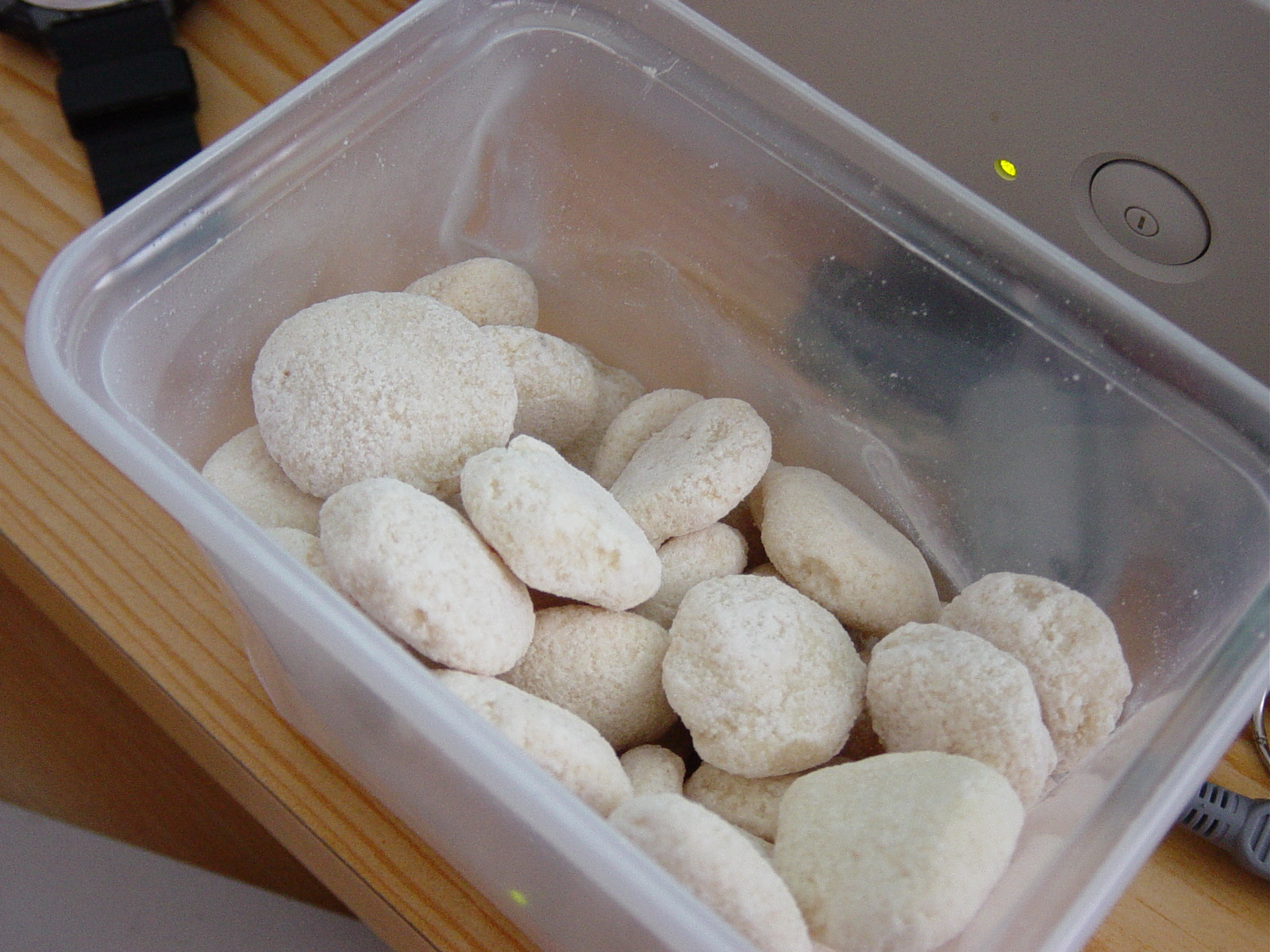 Kazakh kurt